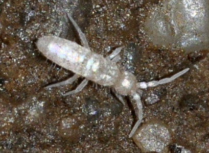 Heteromurus nitidus (Templeton, 1835). Body length 1.5 mm without antennae. Germany: Niedersachsen, Göttingen.